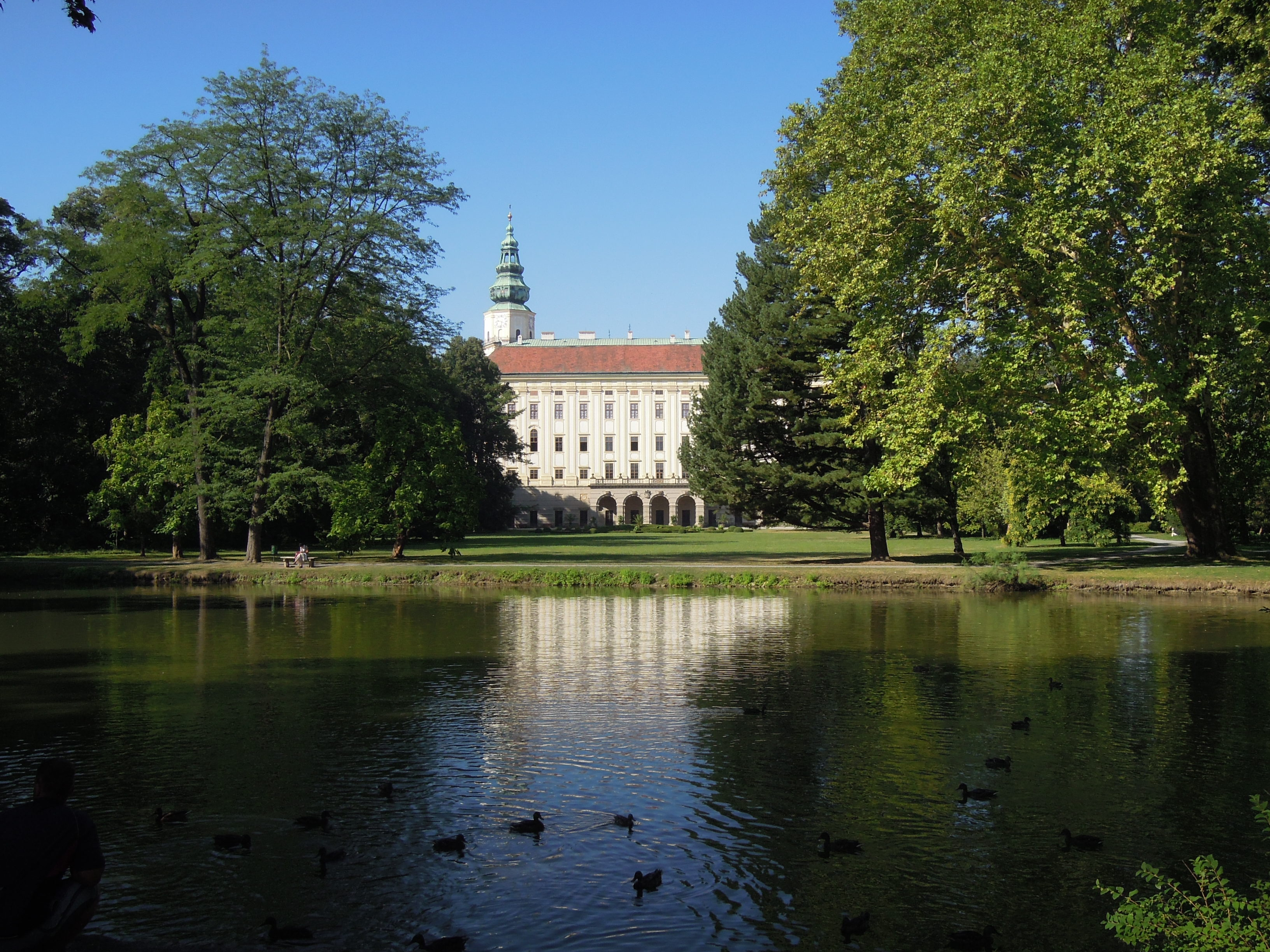 Archbishop's Château in Kroměříž, Kroměříž District, Zlín Region, Czech Republic